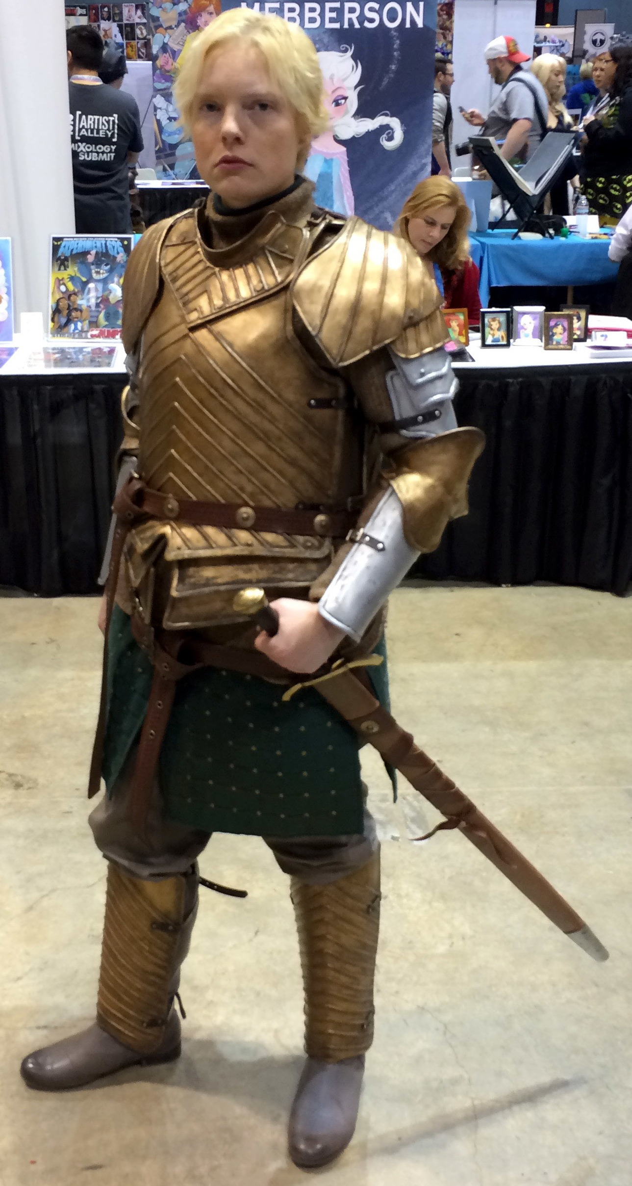 C2E2 Cosplay - Brienne of Tarth Cosplay at the 2015 Chicago Comic & Entertainment Expo (C2E2).